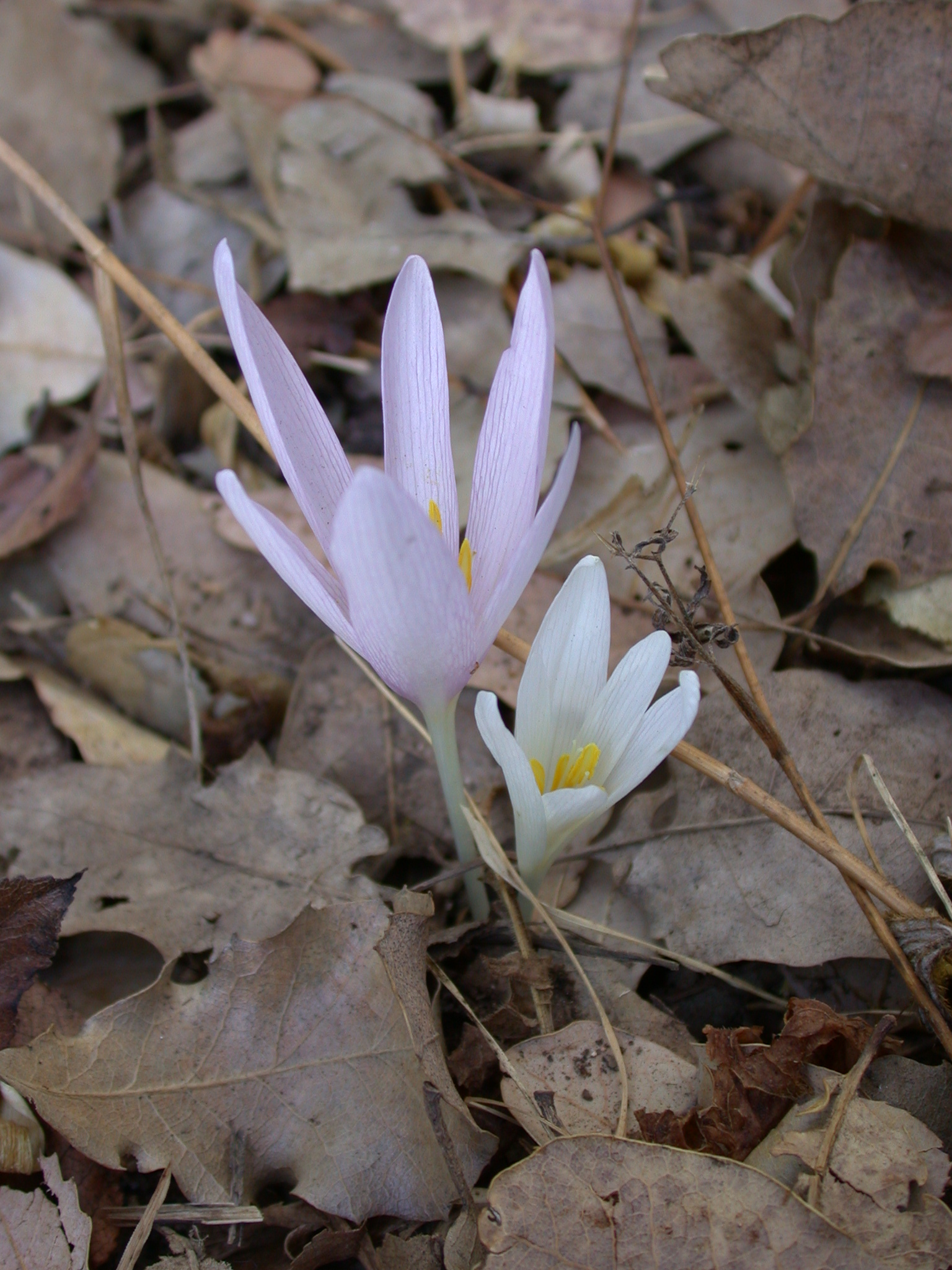 Colchicum troodi Kotschy (סתוונית בכירה), Mount Meron, Upper Galilee, Israel, October 10, 2006. Other names: Colchicum decaisnei Boiss.